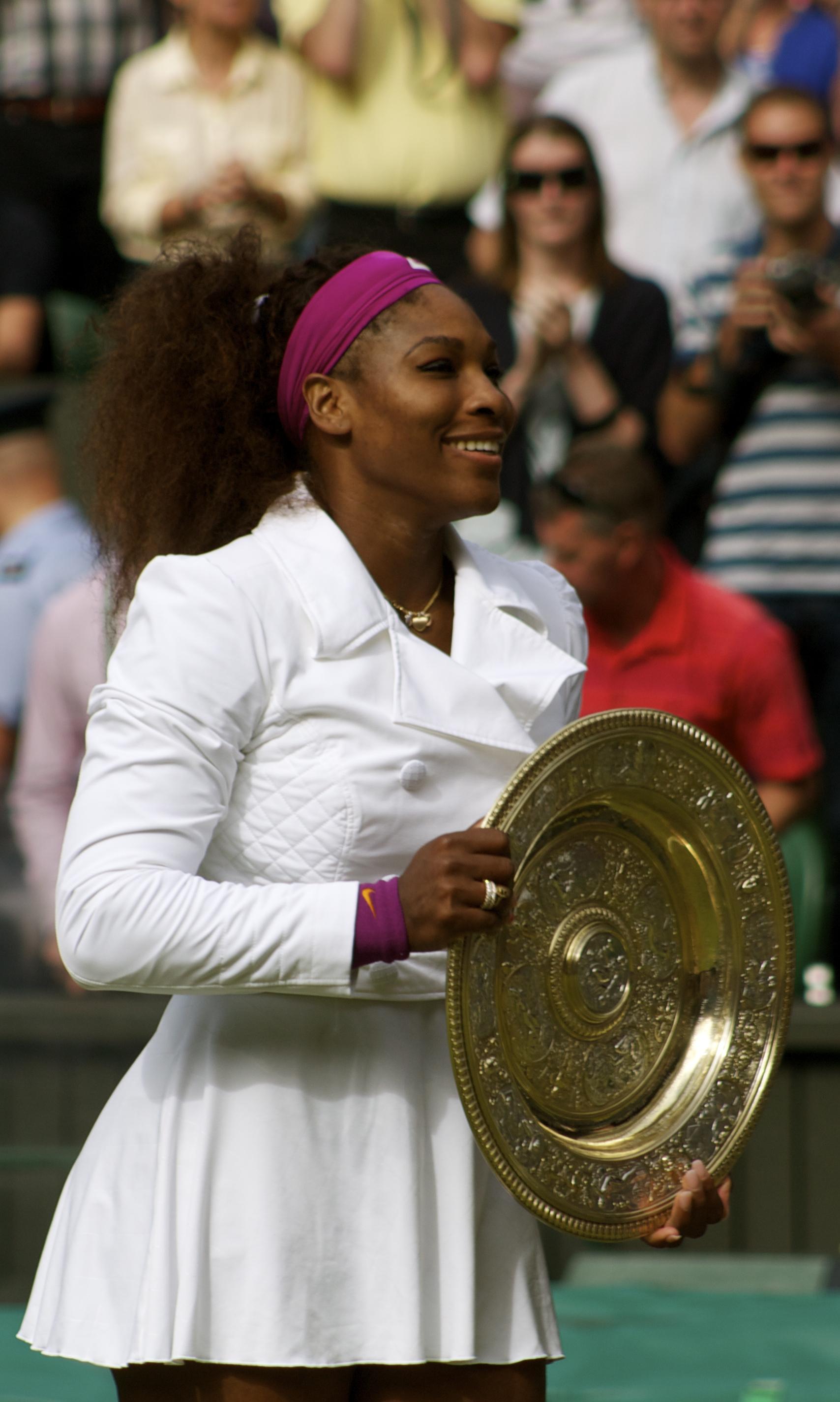 Serena Williams holding the Venus Rosewater Dish immediately after being presented it on Centre Court at the All England Club (Wimbledon) in 2012